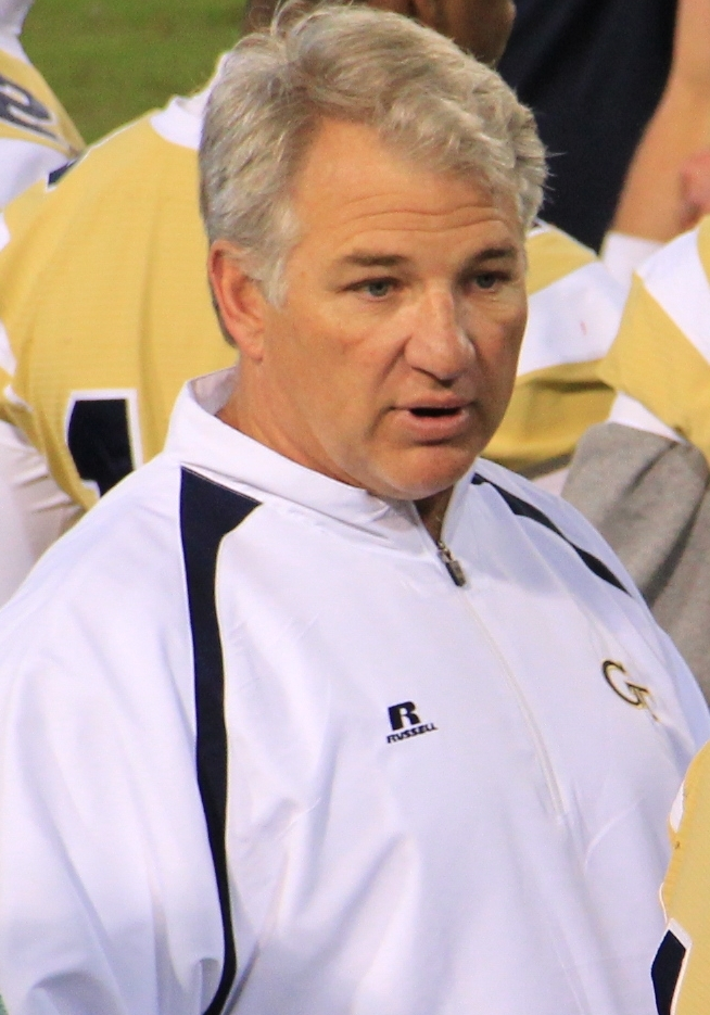 Georgia Tech football defensive coordinator Ted Roof at Georgia Tech's spring game on April 19, 2013.